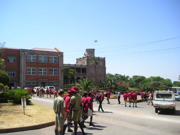 Students from St George's College, Harare, wearing the uniform of the school